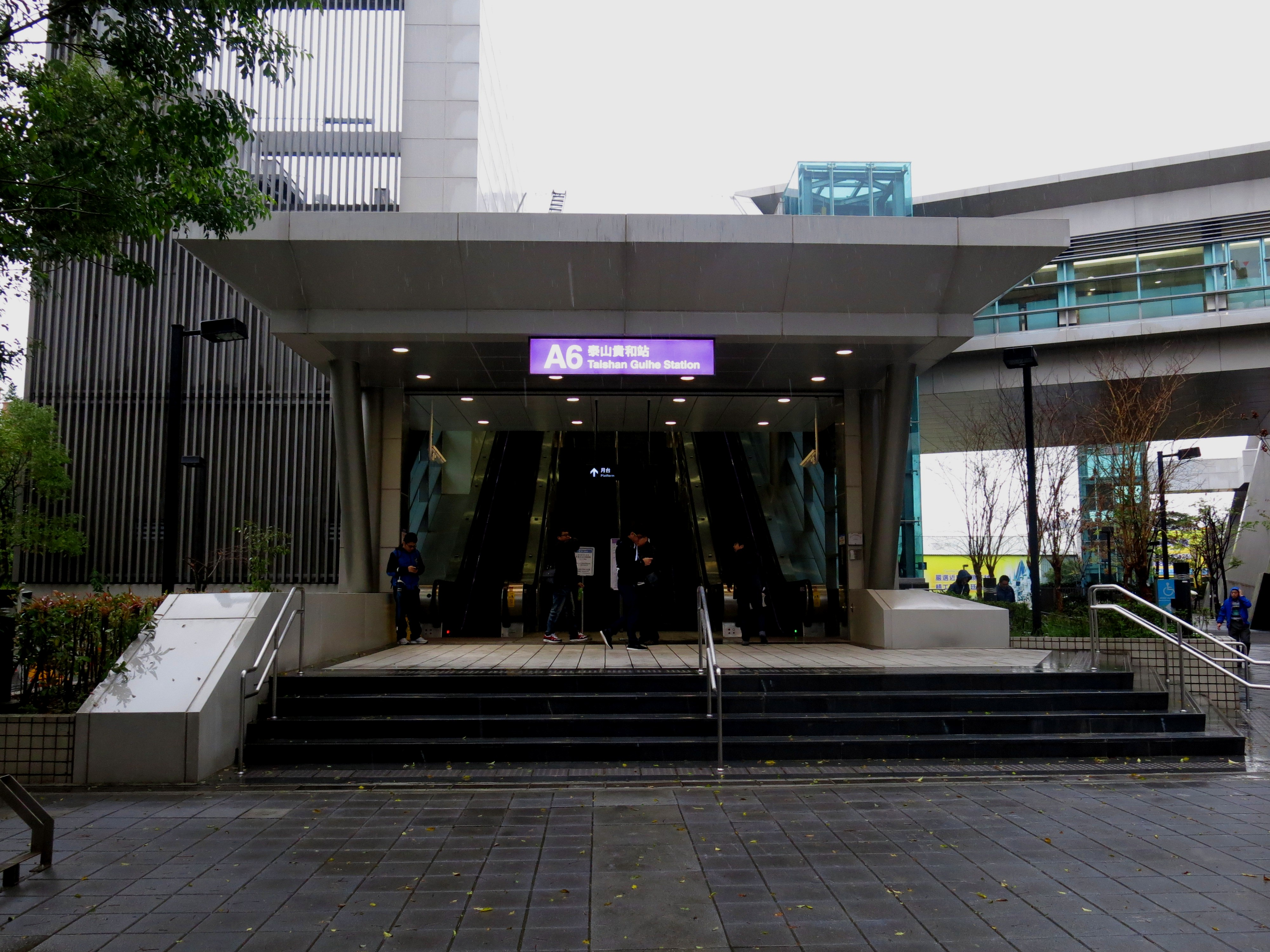 Taoyuan Metro A6 Taishan Guihe Station